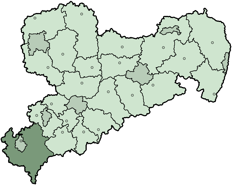 Map of the state Saxony in Germany before 2008, district Vogtlandkreis highlighted.